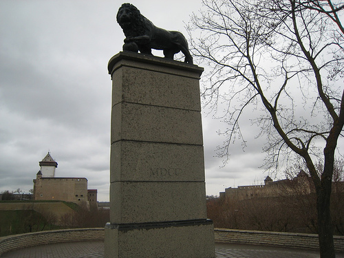 The "Swedish Lion" monument i Narva, Estonia. The monument is erected to celebrate the Swedish victory in the Battle of Narva in the year 1700.